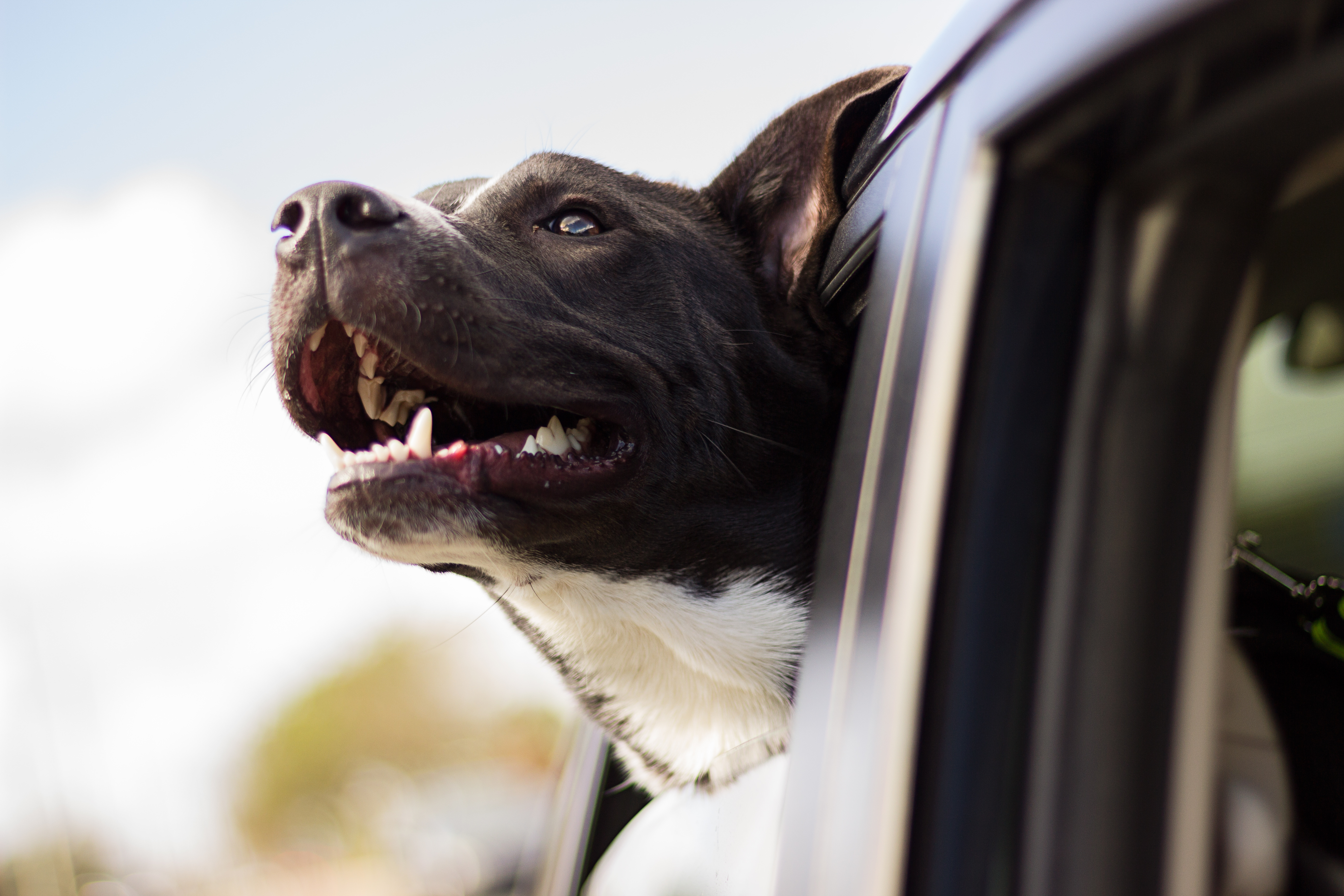 Orlando, United States